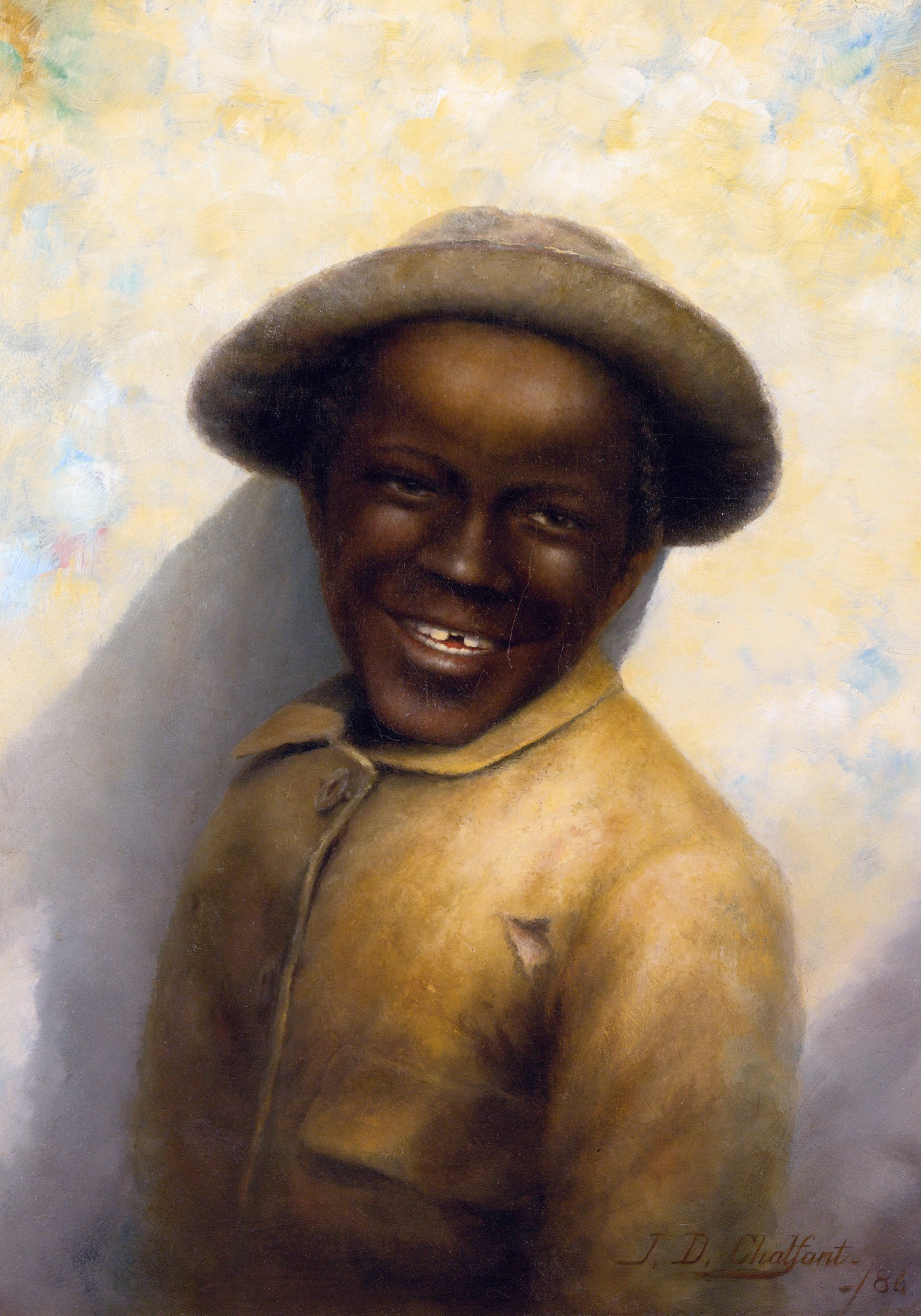 Smiling boy oil on canvas 56 x 40.5 cm signed b.r.: J.D. Chalfant / 86